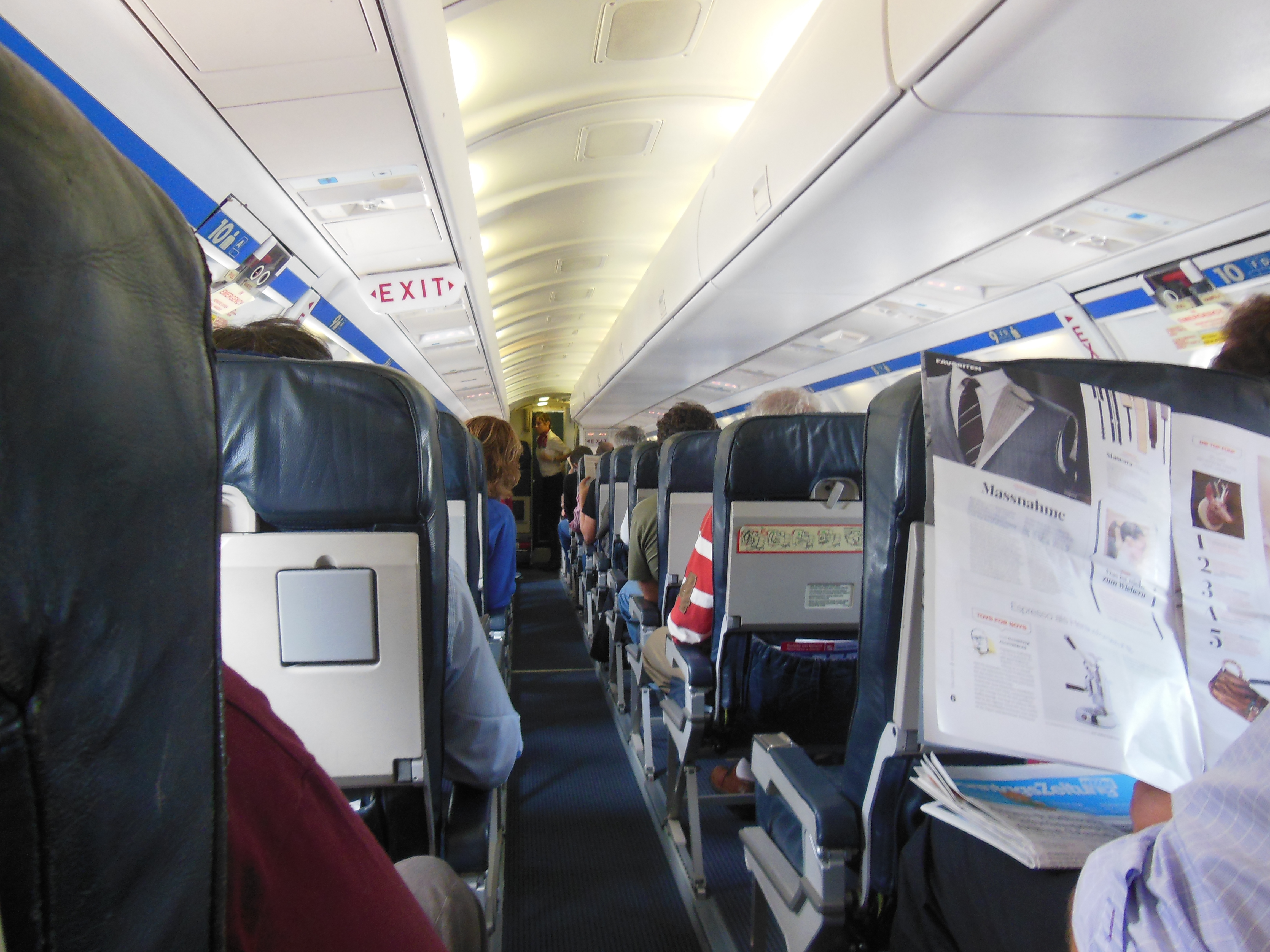 The interior of Darwin Airline Saab 2000 HB-IZJ, looking forward.